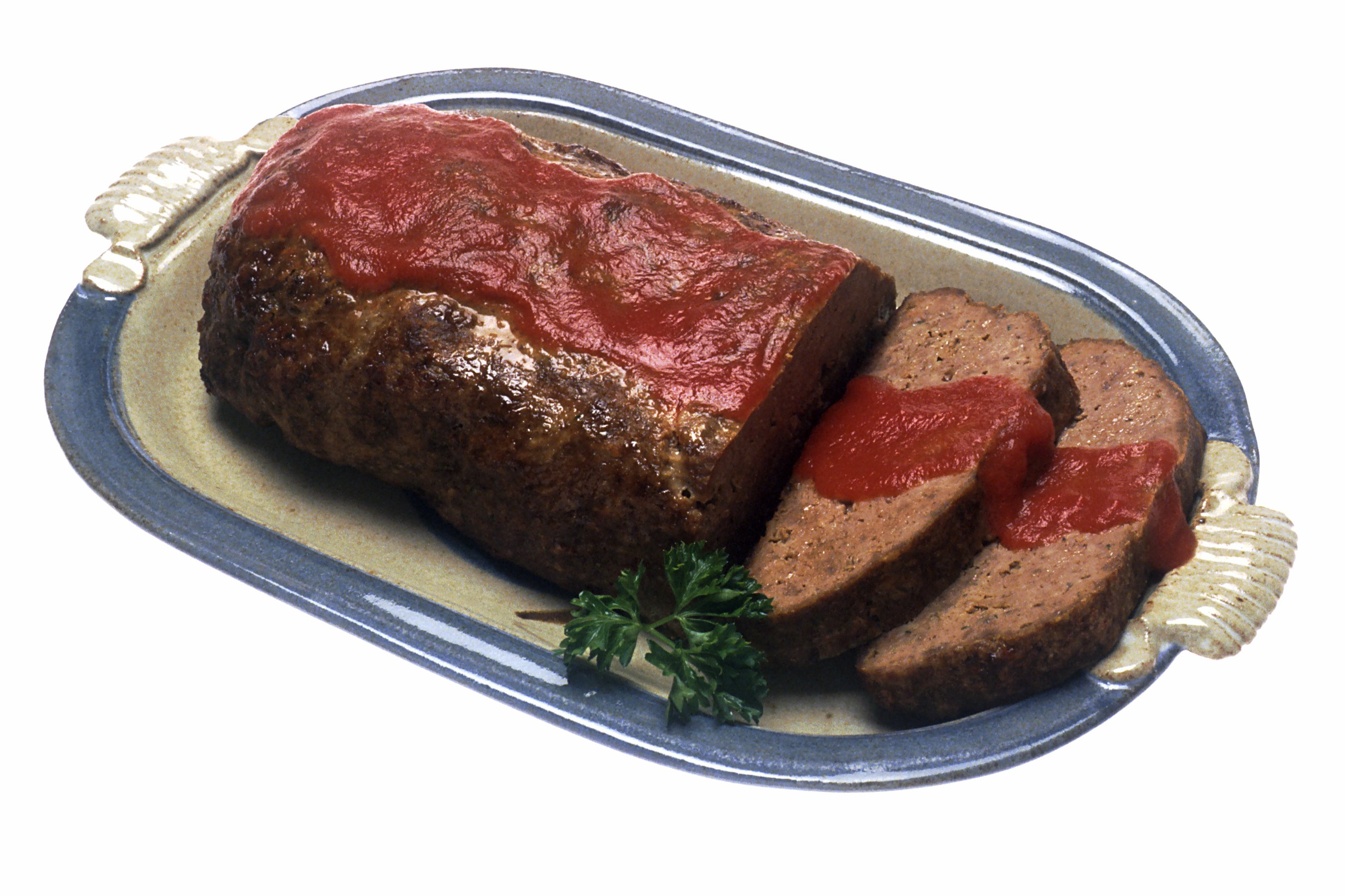 A plate of a whole meatloaf garnished with a sauce on top